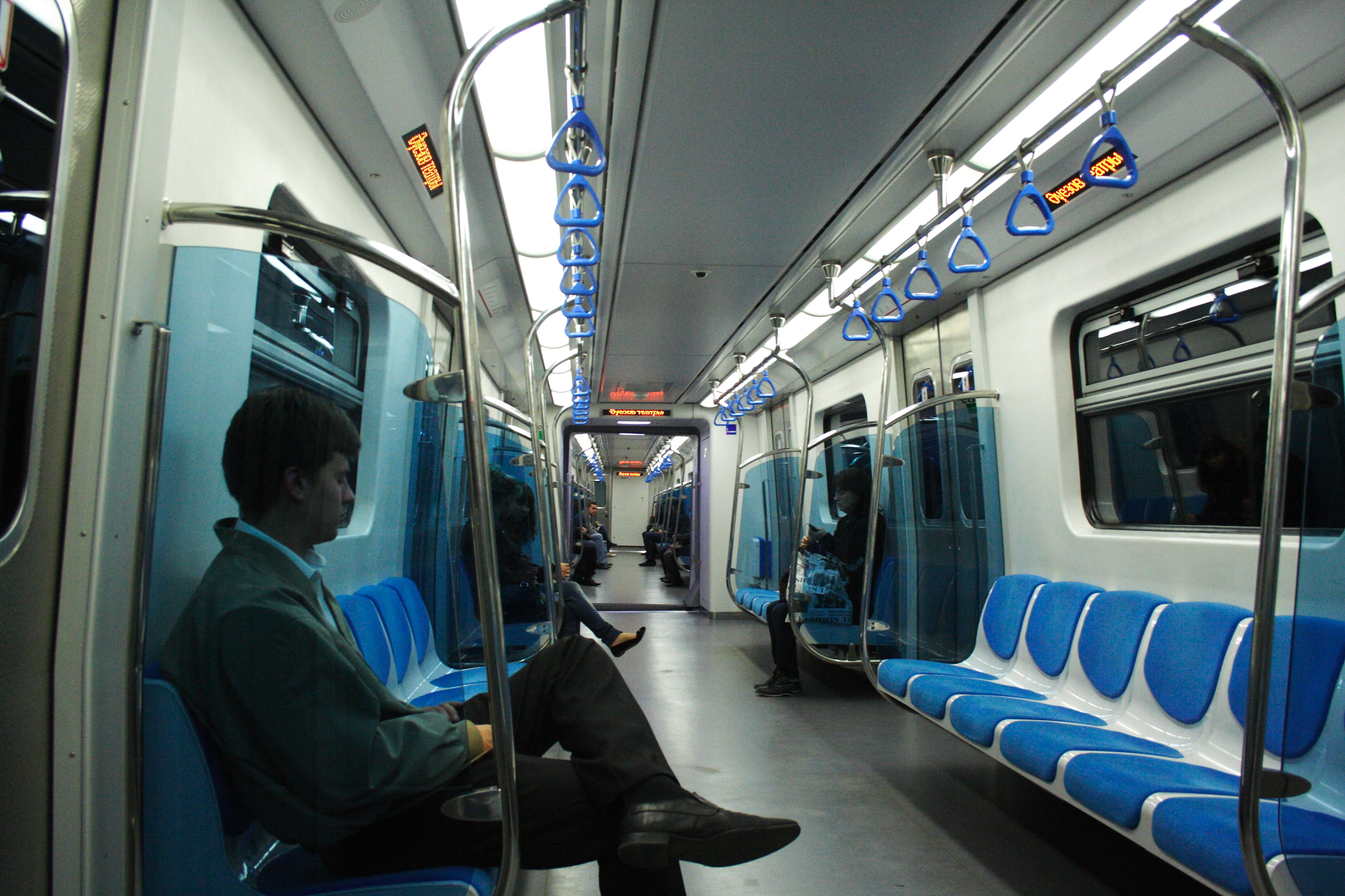 Almaty Metro